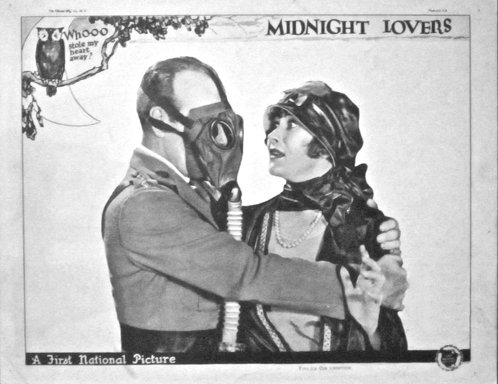 Lobby card for the American war comedy film Midnight Lovers (1926). There are no copyright marks on the card. At top left is The Ullman Mfg Co NY-they printed the card. At top right is Made in USA.